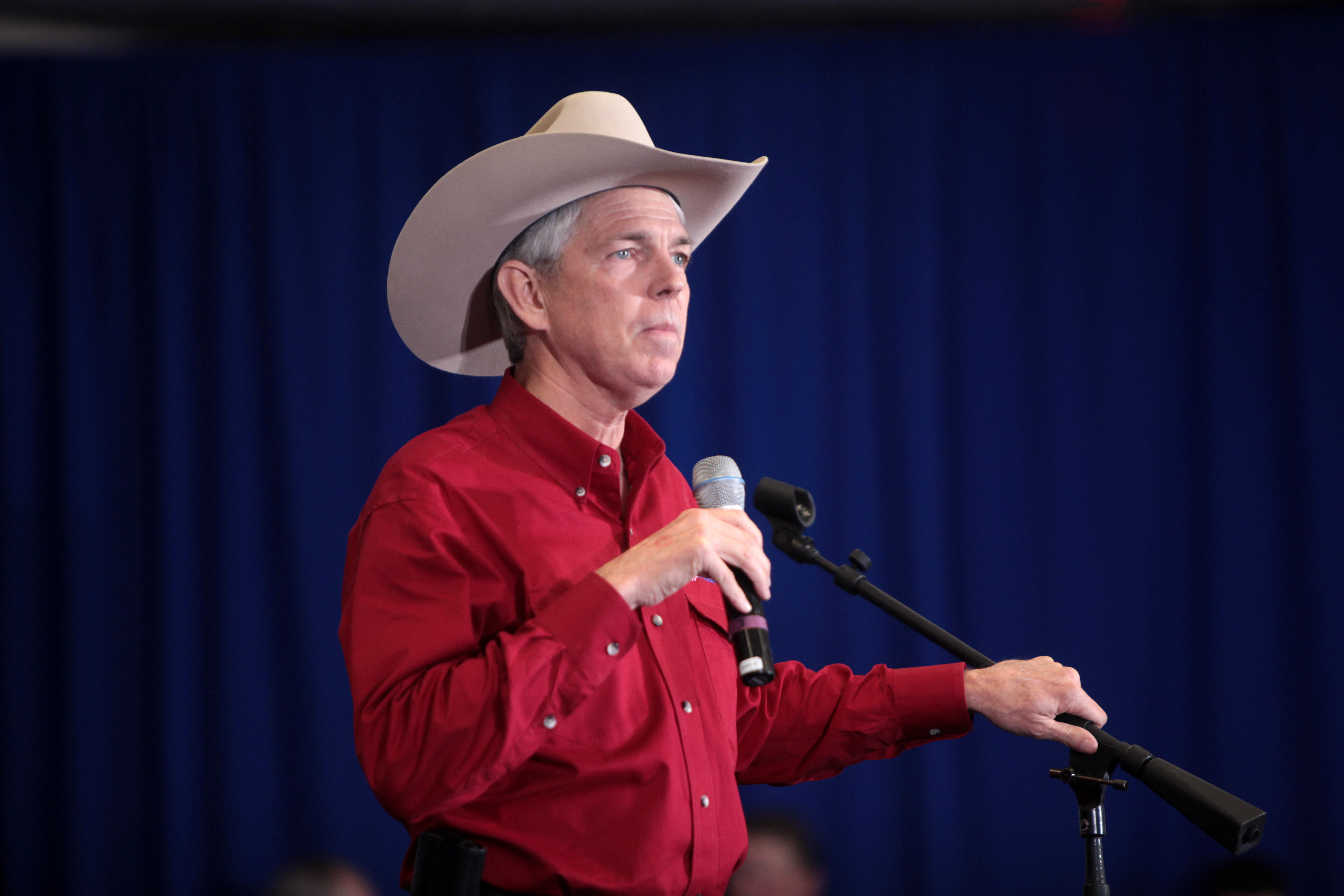 Photograph of David Barton, religious/political activist, speaking at a Nevada Courageous Conservatives rally with U.S. Senator Ted Cruz and Glenn Beck hosted by Keep the Promise PAC at the Henderson Convention Center in Henderson, Nevada.